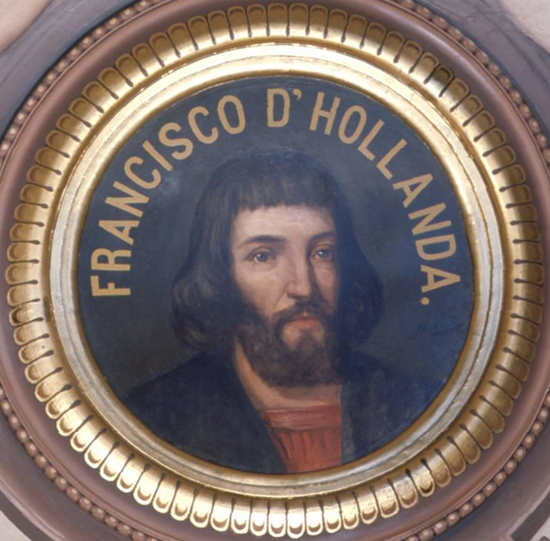 Francisco de Holanda (1517-1585), in the ceiling of the Great Hall of the Lisbon City Hall.